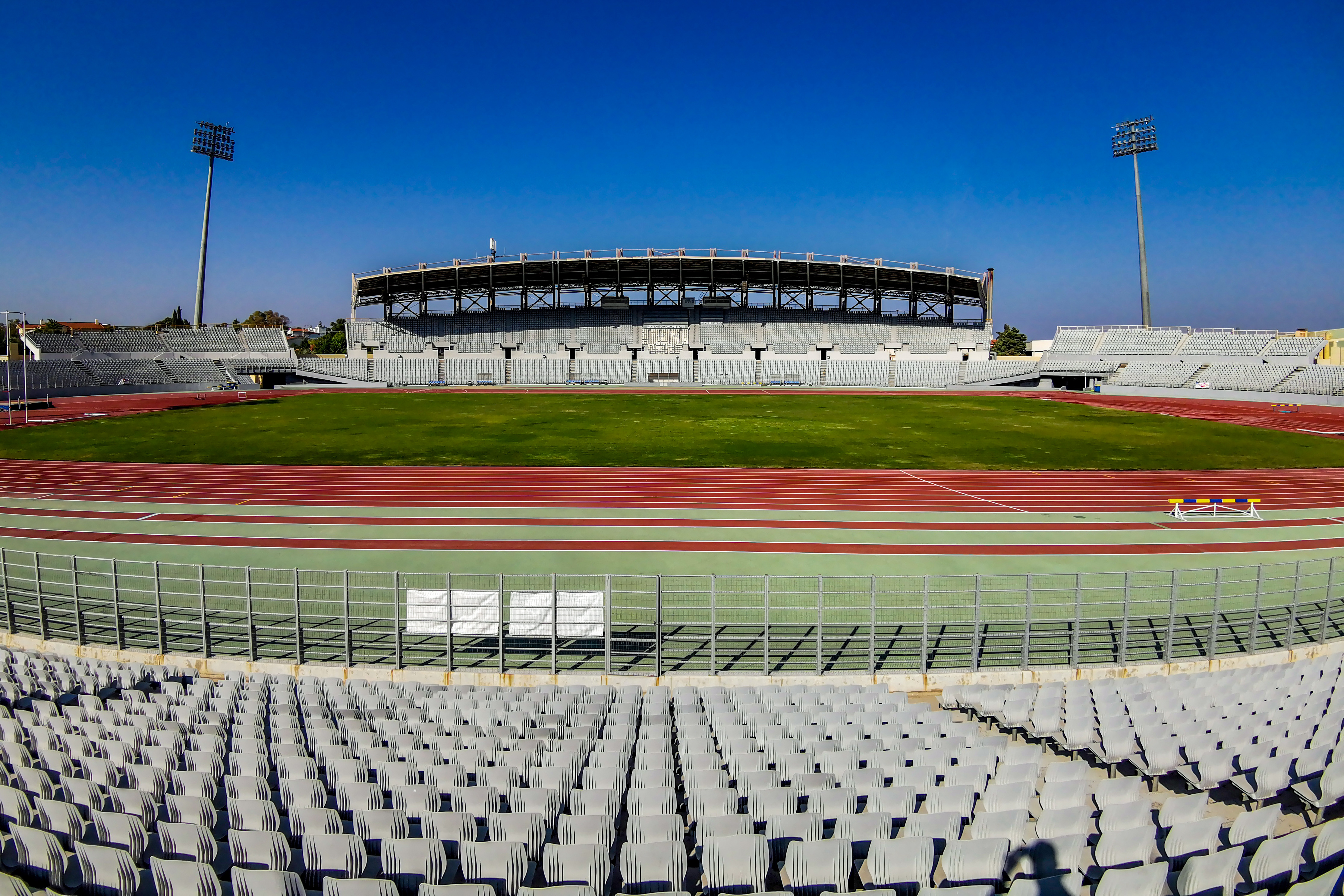 View of the west stand of the Pampeloponnisiako Stadium.